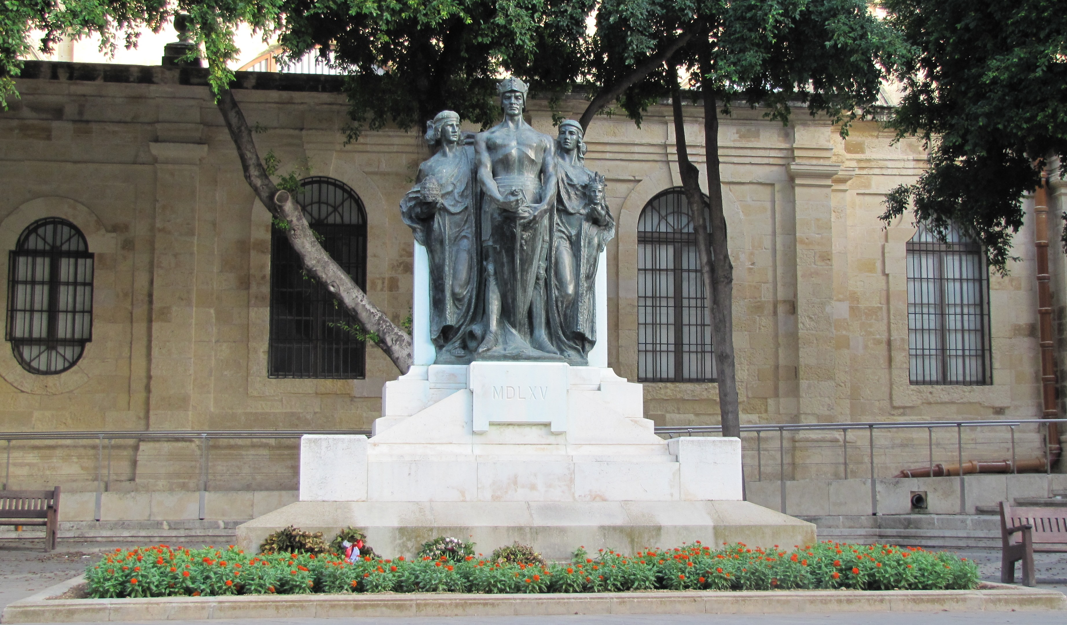 Great Siege Monument This media is about Maltese cultural property with inventory number 01144.